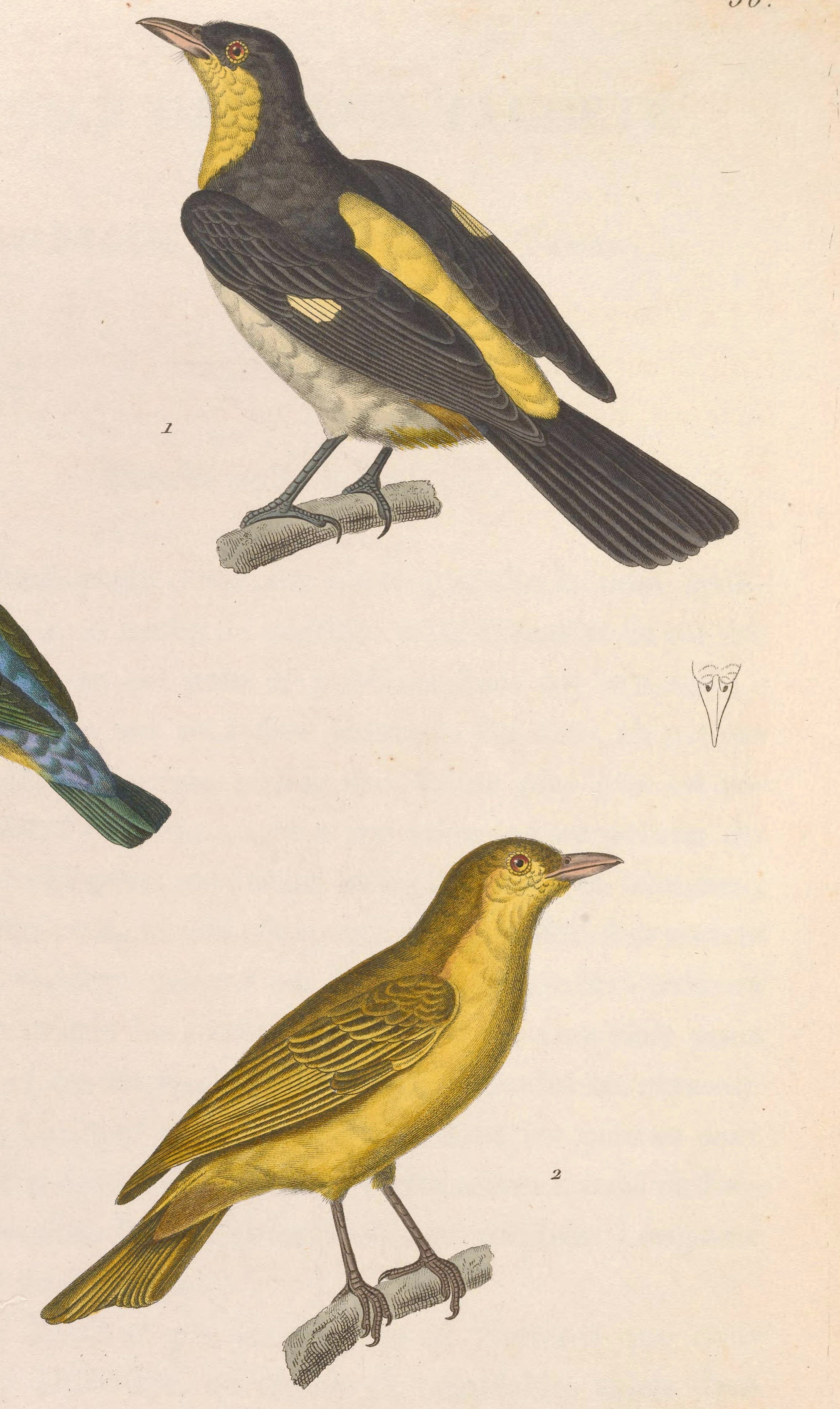 « Tanagra speculifera » = Hemithraupis flavicollis flavicollis (Subspecies of Yellow-backed Tanager) - male and female